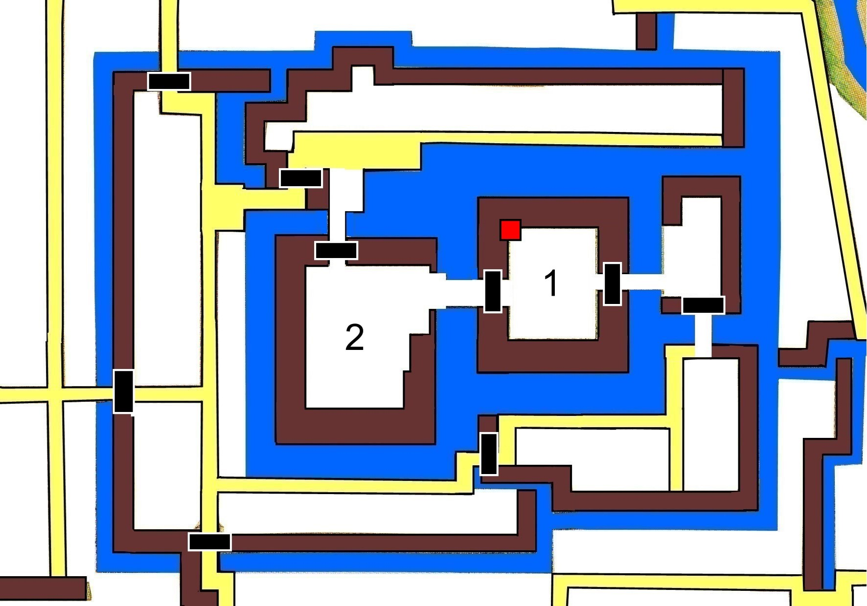 Layout of former Nagaoka Castle. 1: Honmaru (本丸), 2: Ni-no-Maru (二の丸)